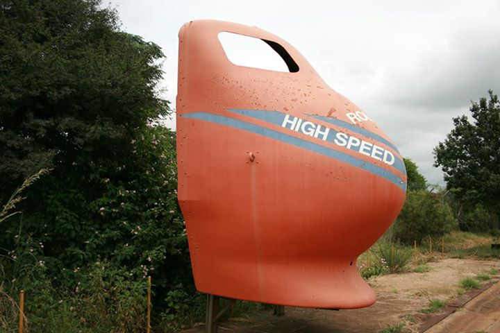 Nose cone used on SAR Class 6E1 Series 4 E1525 during high speed testing. In 1978 E1525 was modified for experiments in high speed traction by re-gearing the traction motors and installing SAR designed Scheffel bogies and a streamlined nose cone. In this configuration E1525 reached a speed of 245 kilometres per hour (152 miles per hour) on 31 October 1978, a still unbeaten world record on 3 feet 6 inches (1,067 millimetres) Cape gauge track.